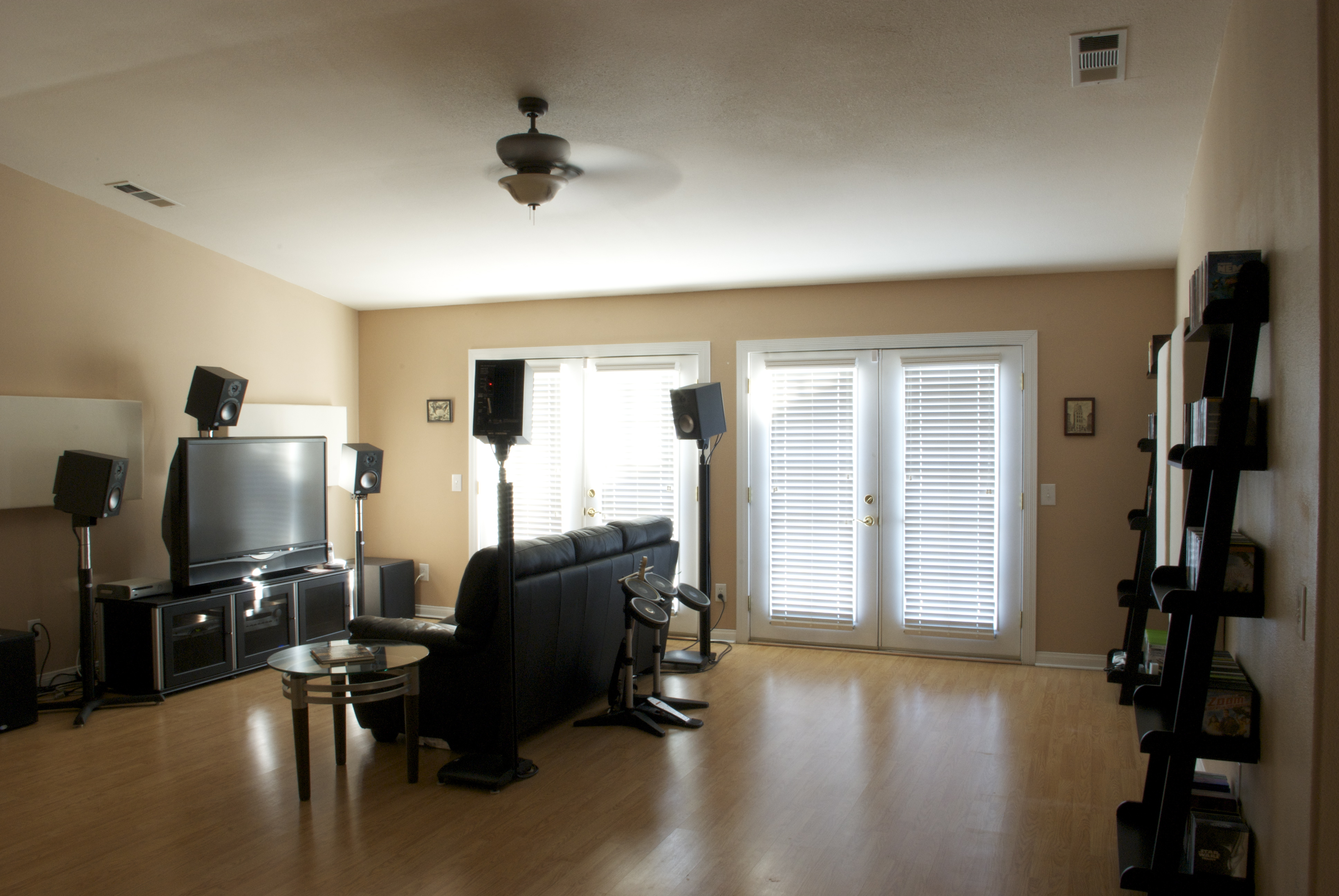 A home cinema in the late aughts.